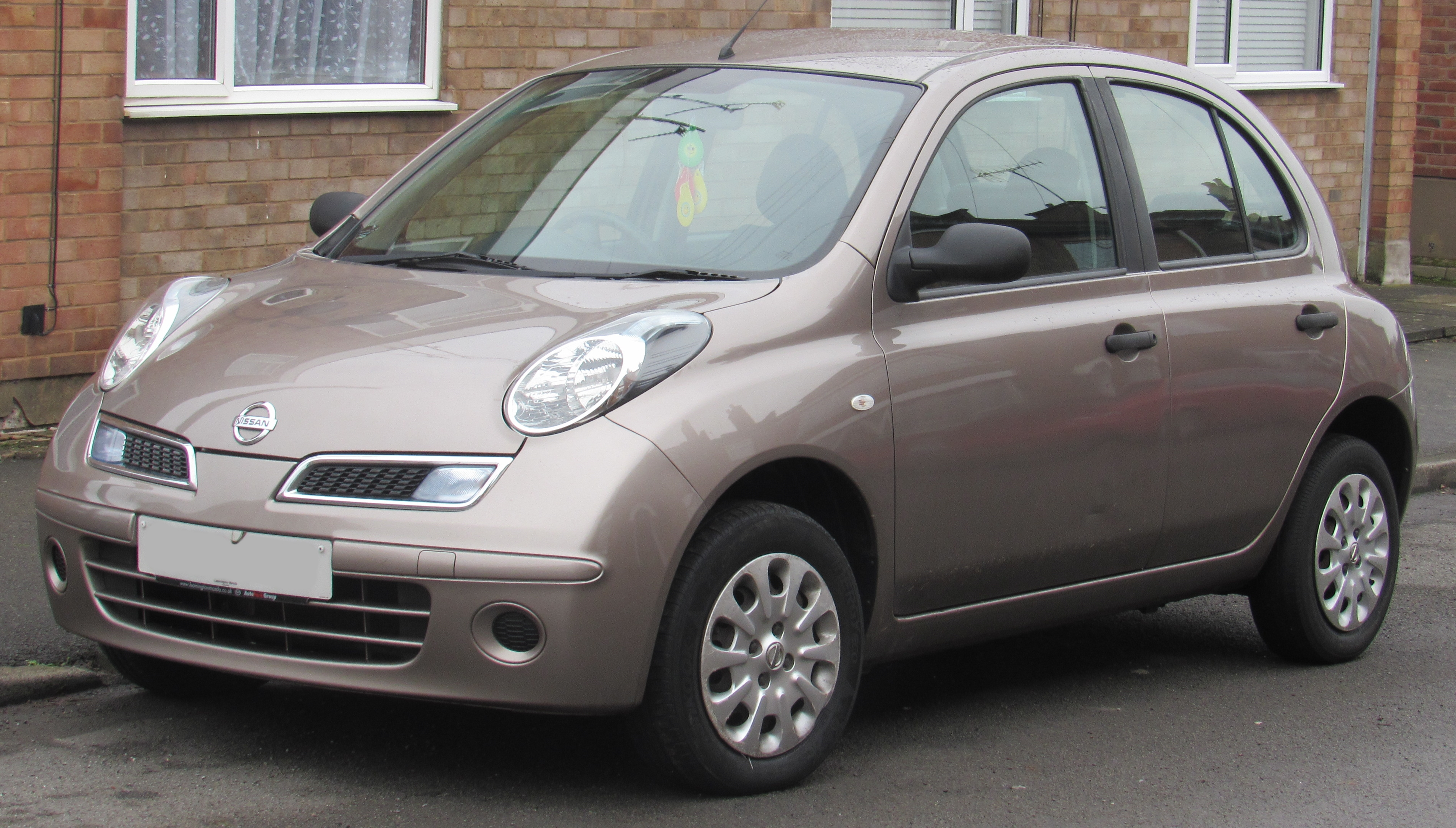 2009 Nissan Micra Visia facelift 1.2 Front Taken in Warwick